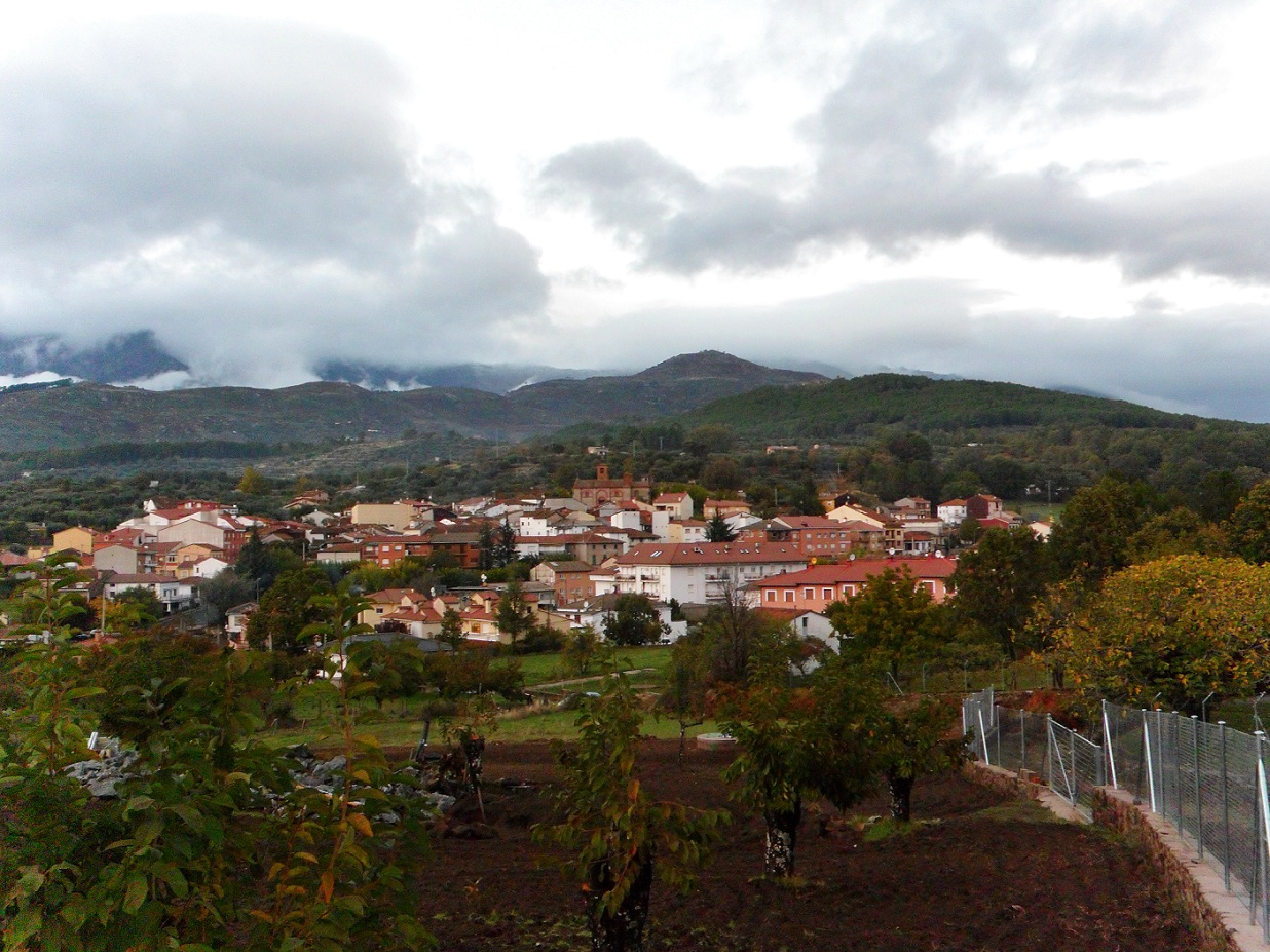 View of "La Parra" hamlet (Arenas de San Pedro, Ávila, Spain ).